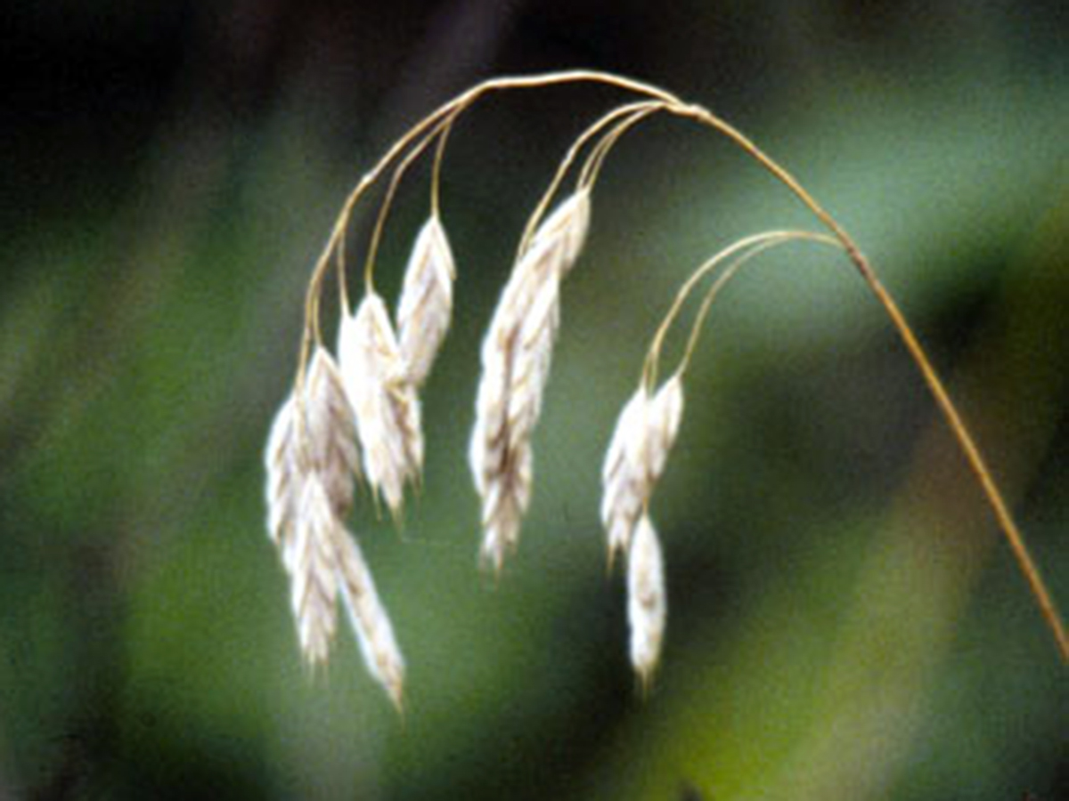 Bromus kalmii A. Gray - arctic brome